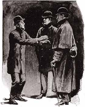 Illustration of the Sherlock Holmes short story The Blue Carbuncle, which appeared in The Strand Magazine in January, 1892. Original caption was "YOU ARE THE VERY MAN."